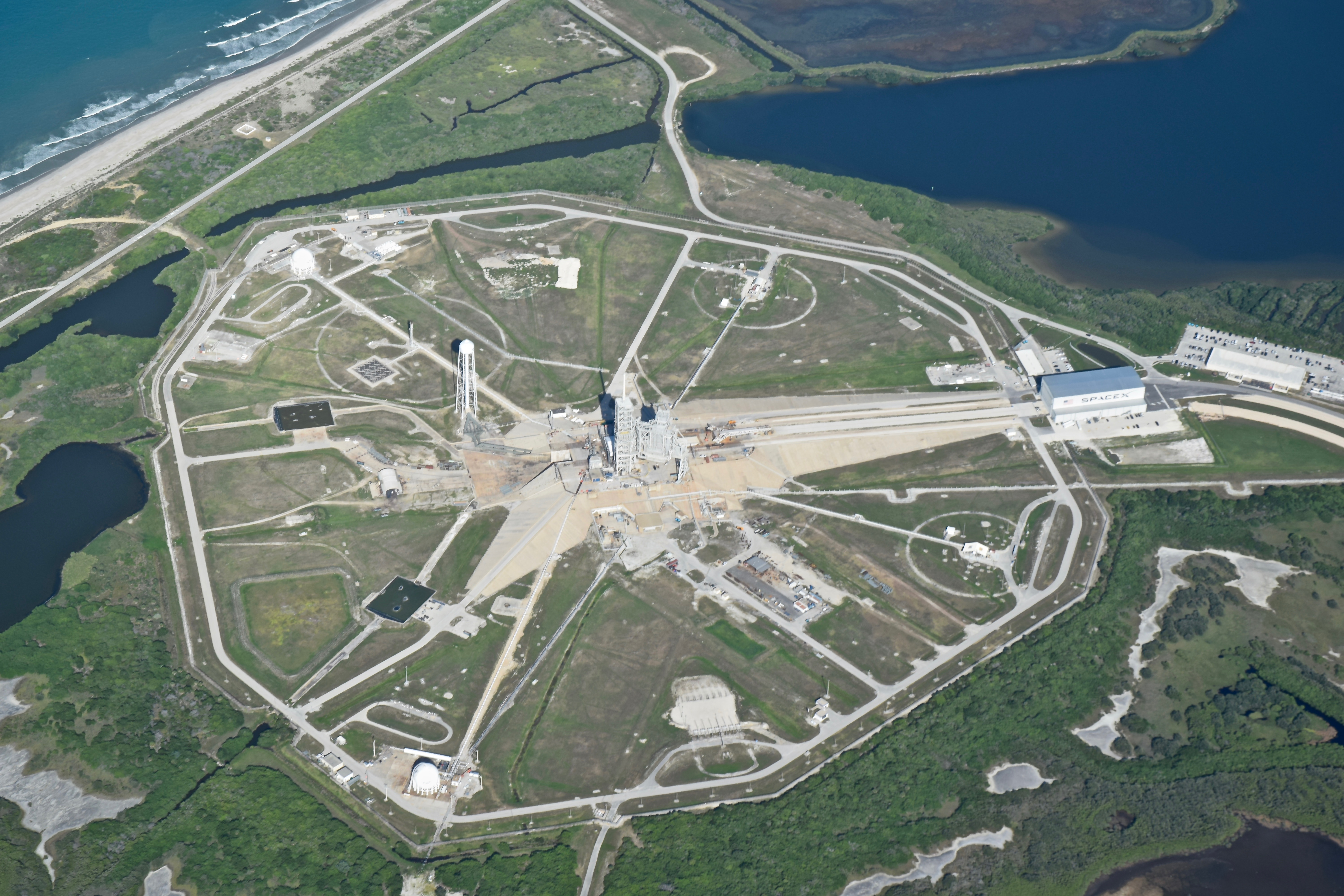 Launch Complex 39A. Saturn V rockets went to the moon from here, as well as the Space Shuttles which built the Space Station